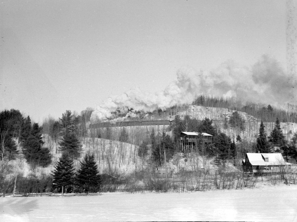 A train pulls into the station at the railway station of Sainte-Marguerite-du-Lac-Masson in the Laurentians.